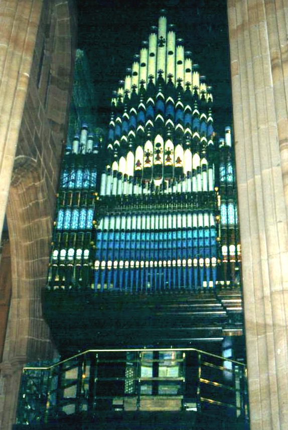 Sydney, St. Andrew's Anglican Cathedral,the Hill organ, very poor photo much editted